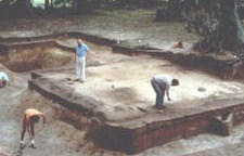 Coker Experimental Farm (Darlington County, South Carolina).jpg This image or media file contains material based on a work of a National Park Service employee, created as part of that person's official duties. As a work of the U.S. federal government, such work is in the public domain. See the NPS website and NPS copyright policy for more information.